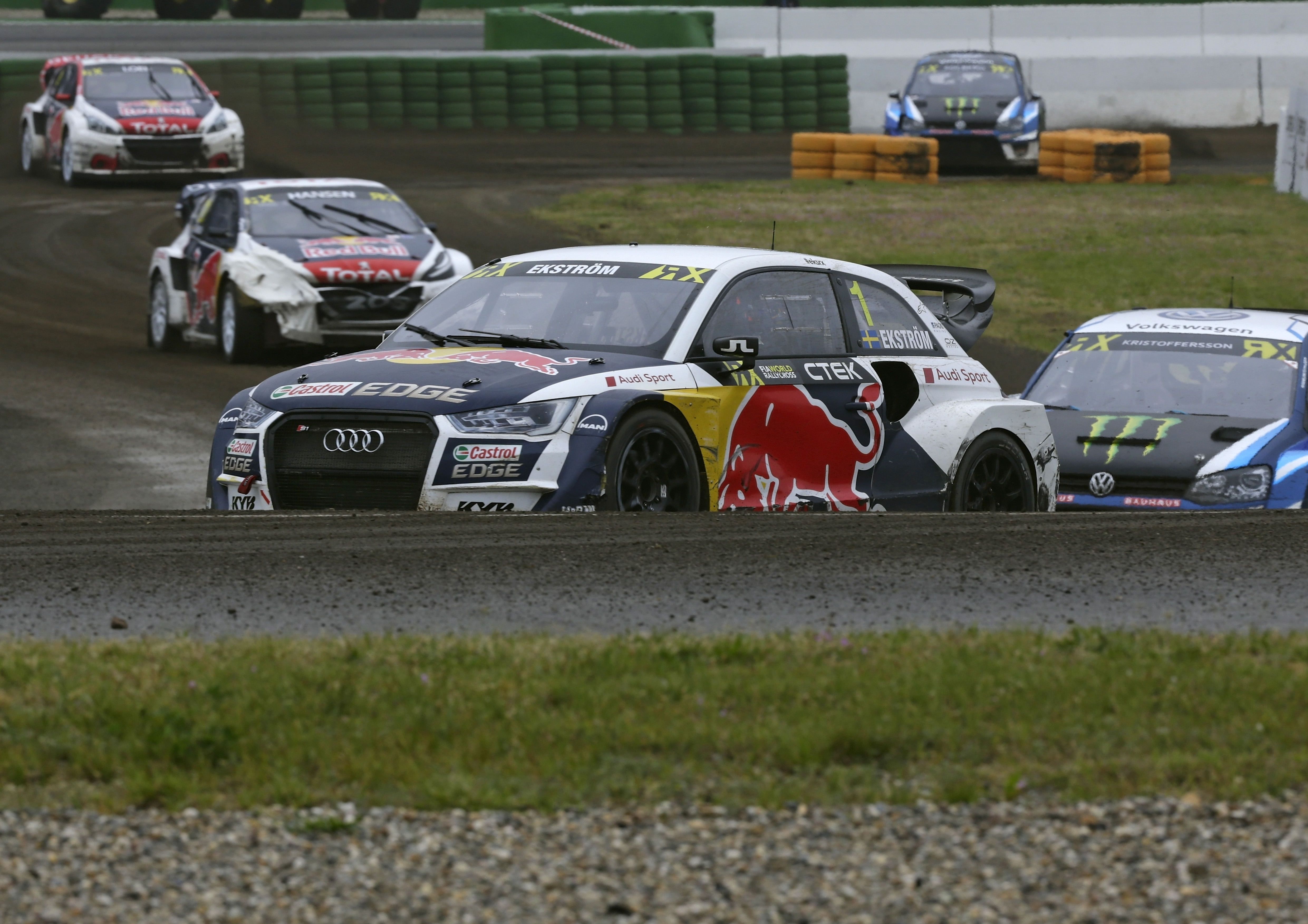 2017 FIA World Rallycross Championship // Round 03, Hockenheim // Credit: EKS/Bodo Kraeling